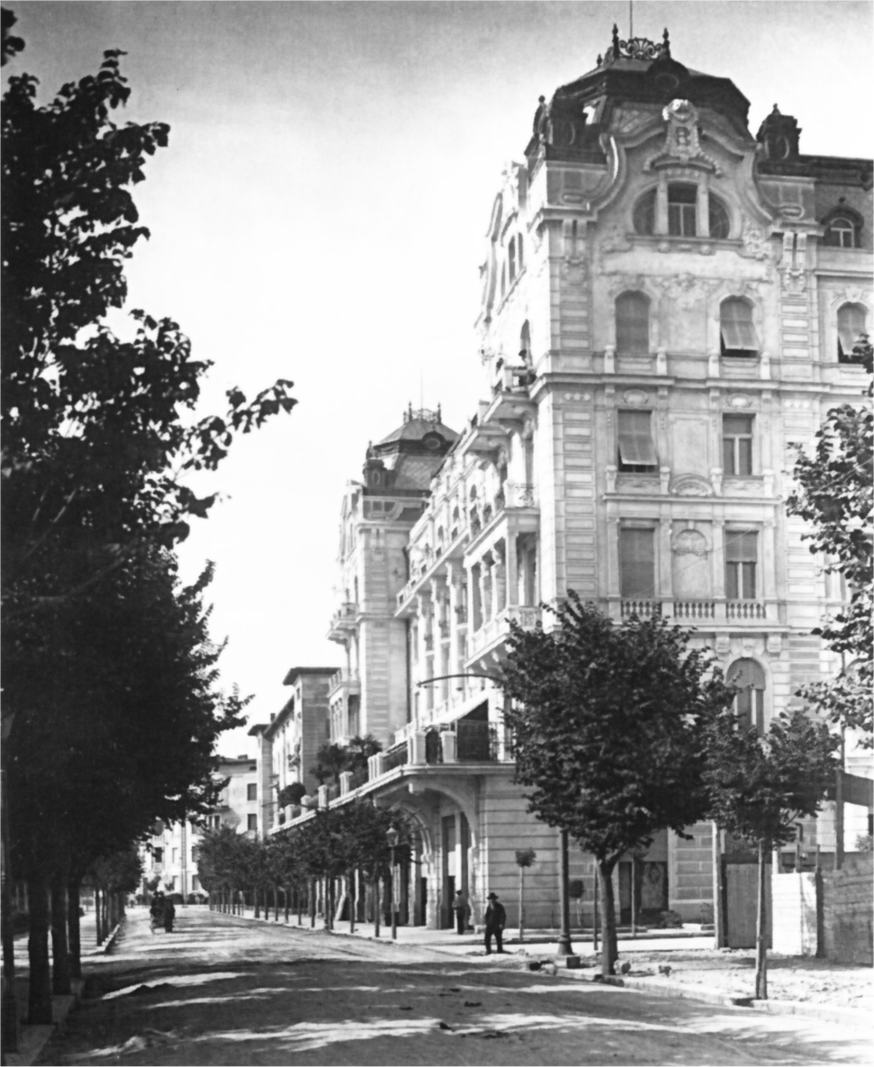 Old view of Hotel Riviera in Pula. It was designed by J.L.Münz and built 1909